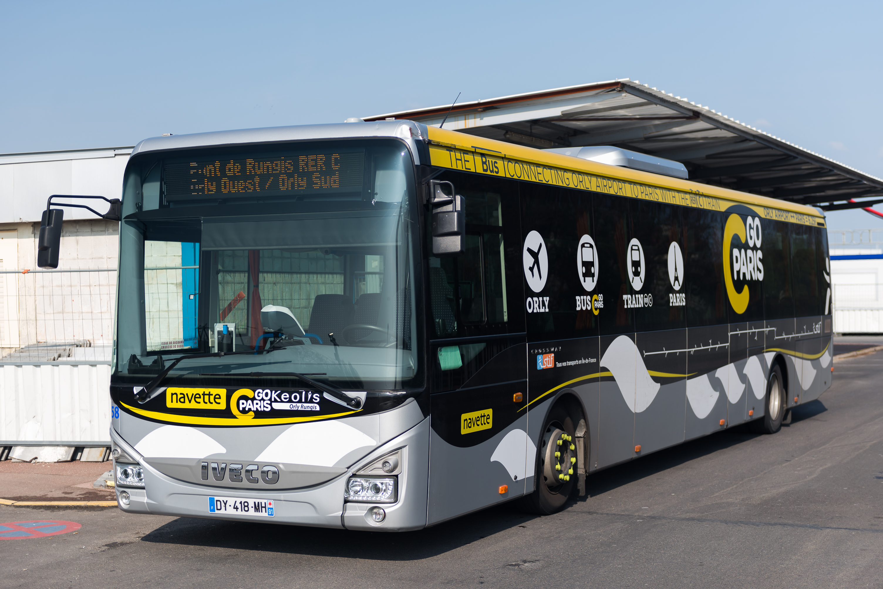 Irisbus Crossway LE 258 Kéolis Orly-Rungis, Navette Go C Paris, Thiais